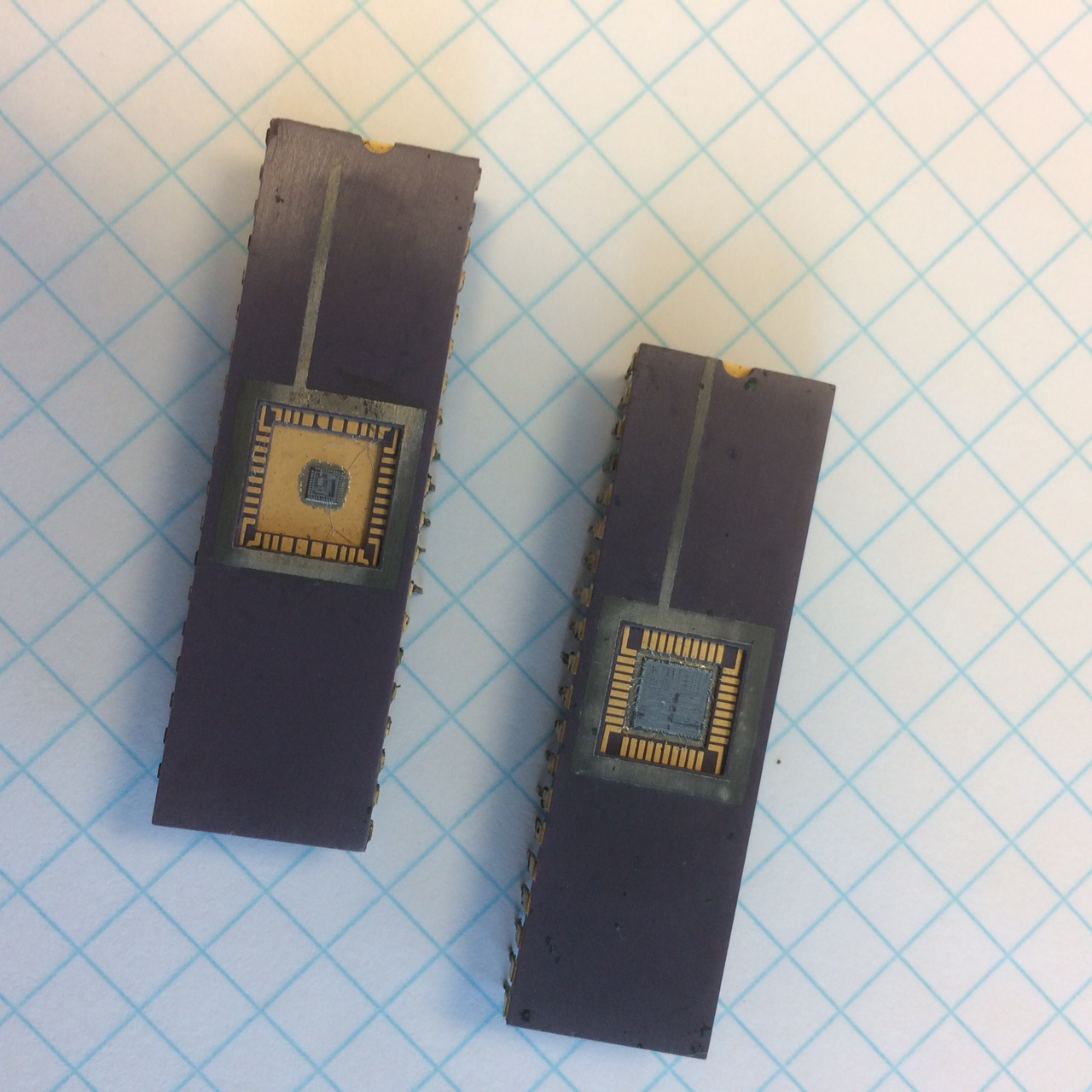 Processing Chips for processing and transmitting remote meter data